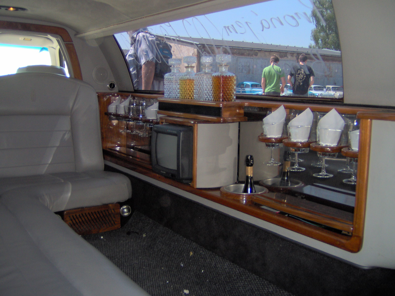 Interior of Lincoln Town Car stretch limousine in Brno, Czech Republic